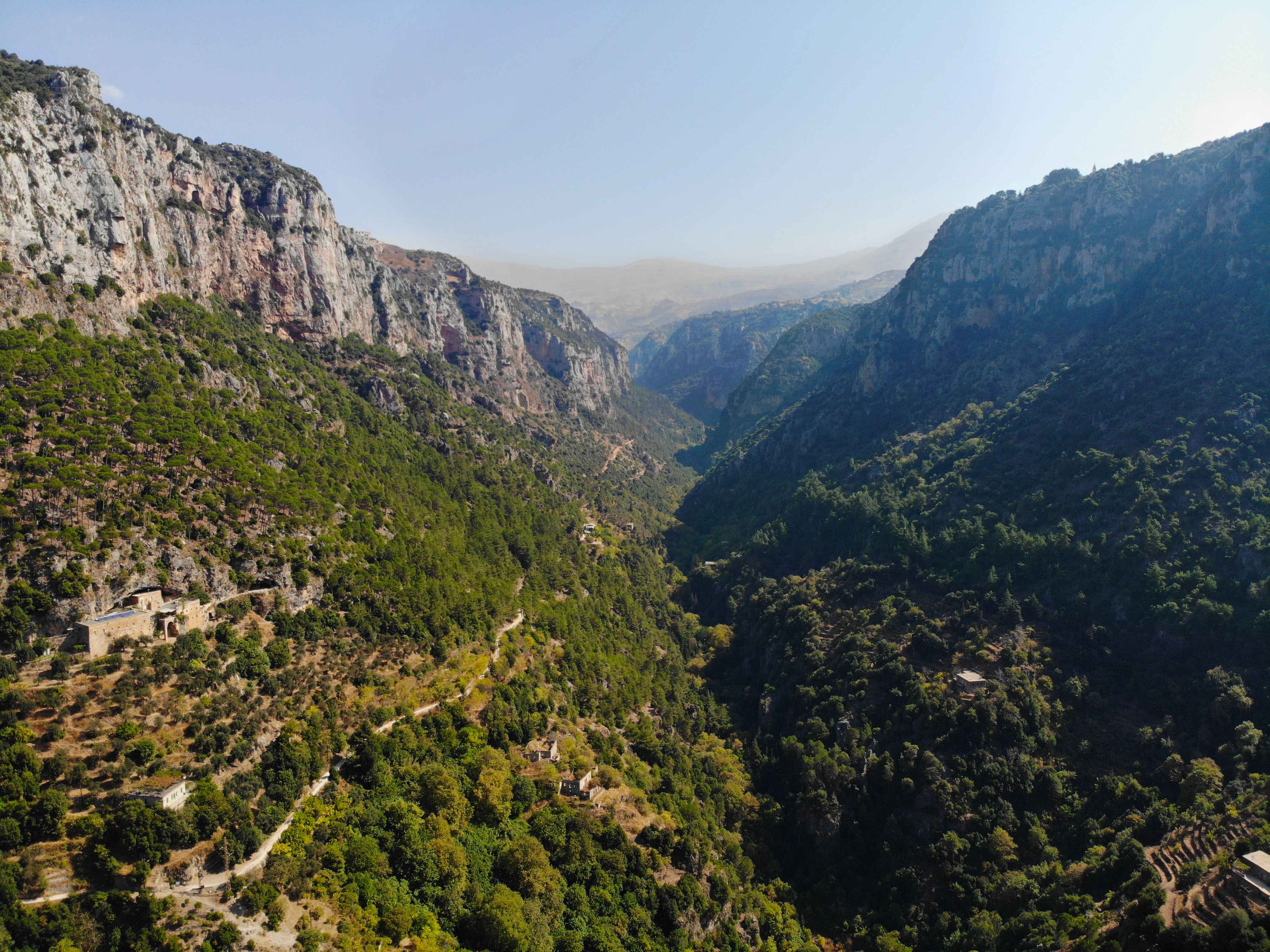 Drone photograph of the Qadisha Valley, photograph taken October 2019, facing almost due west from the Qannoubine Monastery (lower-left)